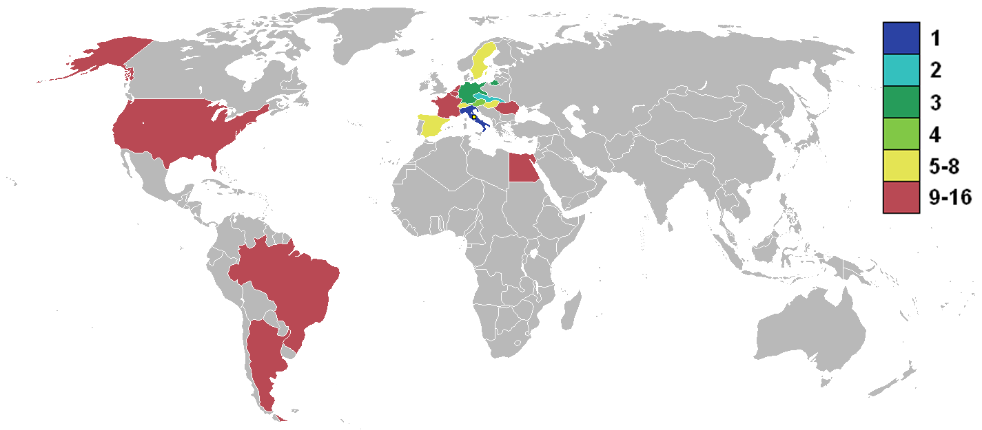 1934 FIFA World Cup, derived from free licenced world map, showing: 1st (dark blue) 2nd (light blue) 3rd (dark green) 4th (light green) Quarterfinals (yellow) Round 1 (red) Yellow square is host nation.